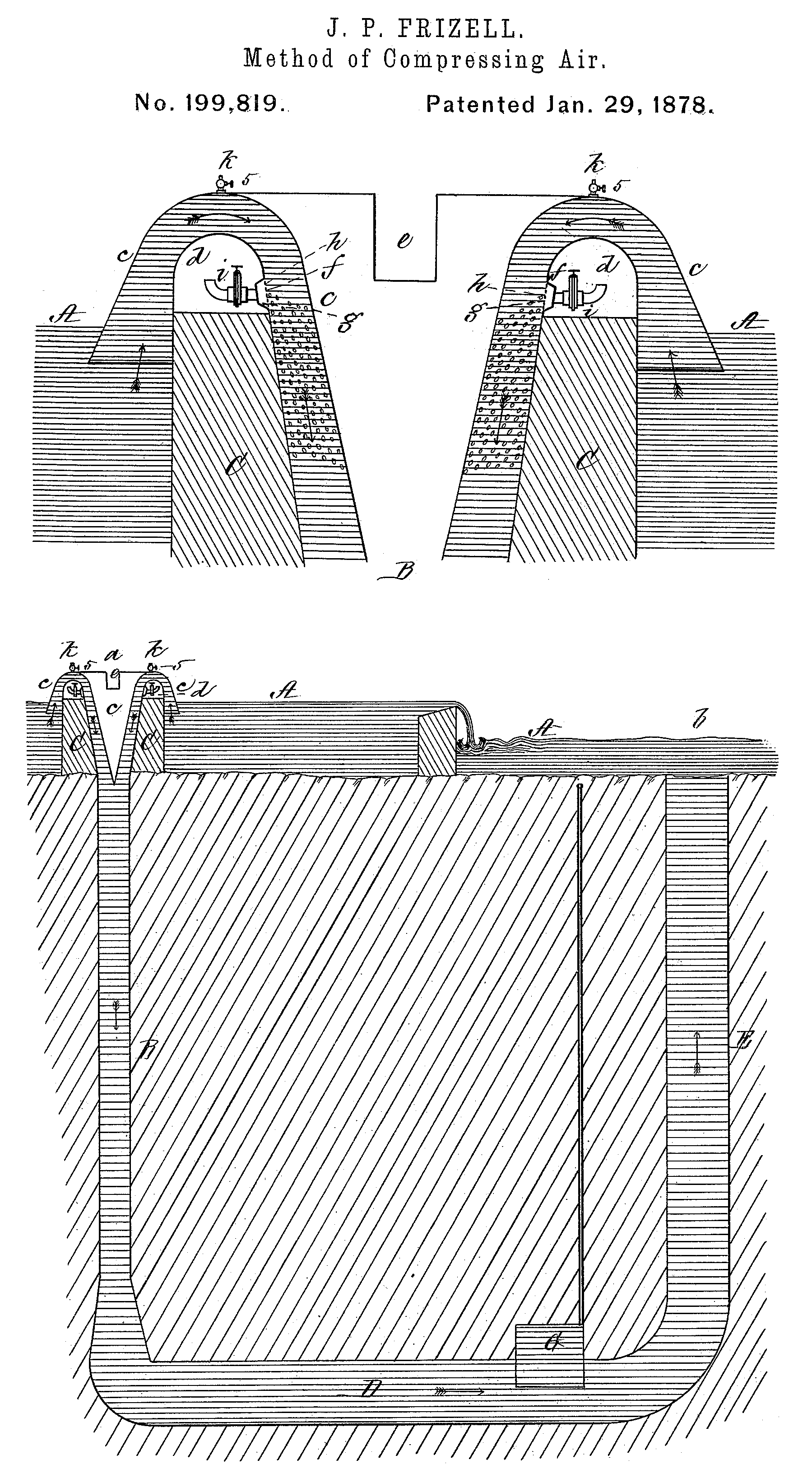 Joseph Palmer Frizell patent, about a hydraulic trompe.